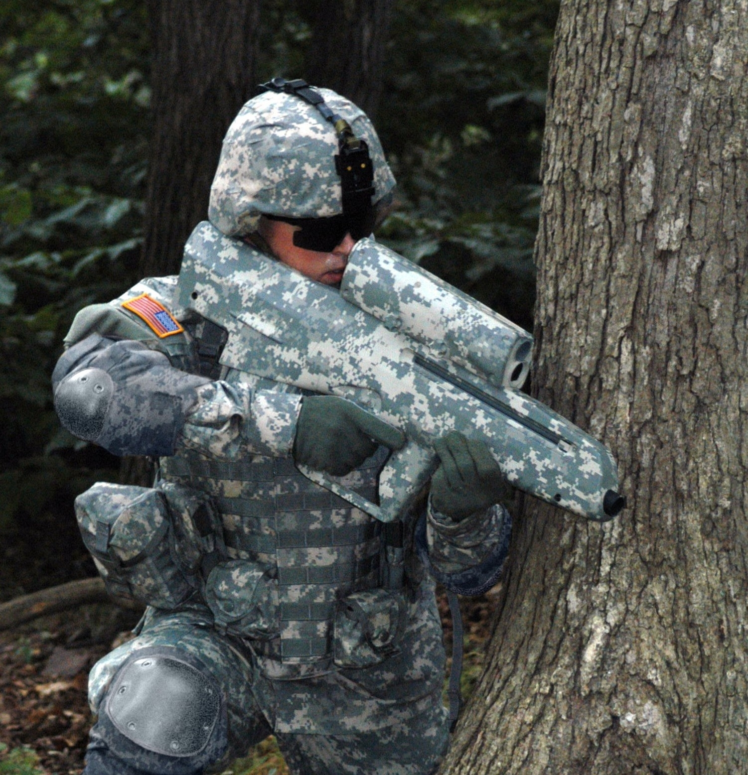 The Army's futuristic-looking 2.5 pound XM25 Individual Airburst Weapon System is in development as a means to defeat defilade targets.